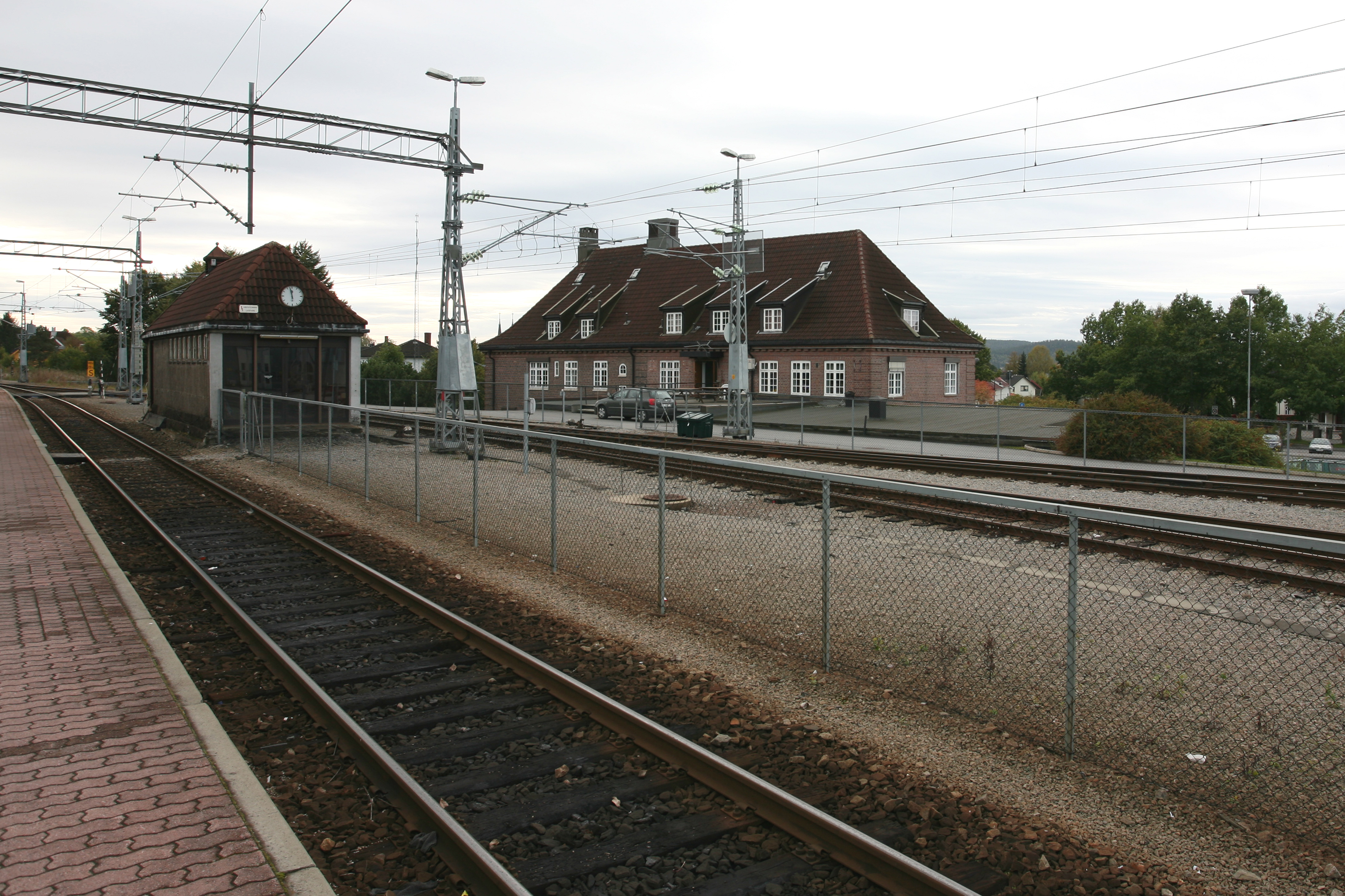 Picture of Skien Railway Station (Telemark - Norway)